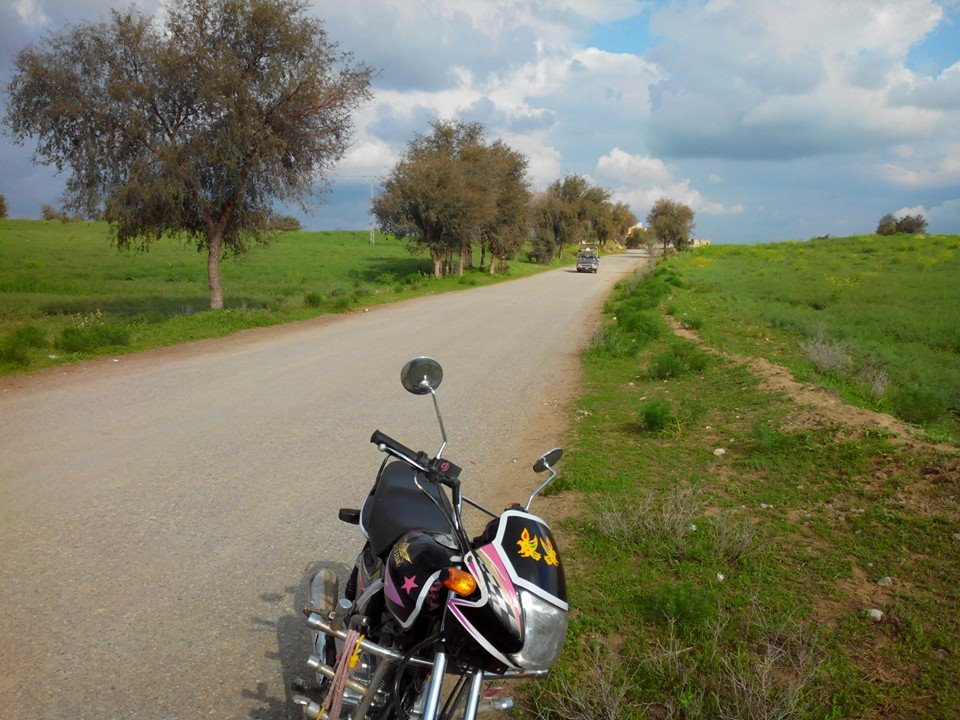 this is a sight of tajori lakki marwat near suffah public school